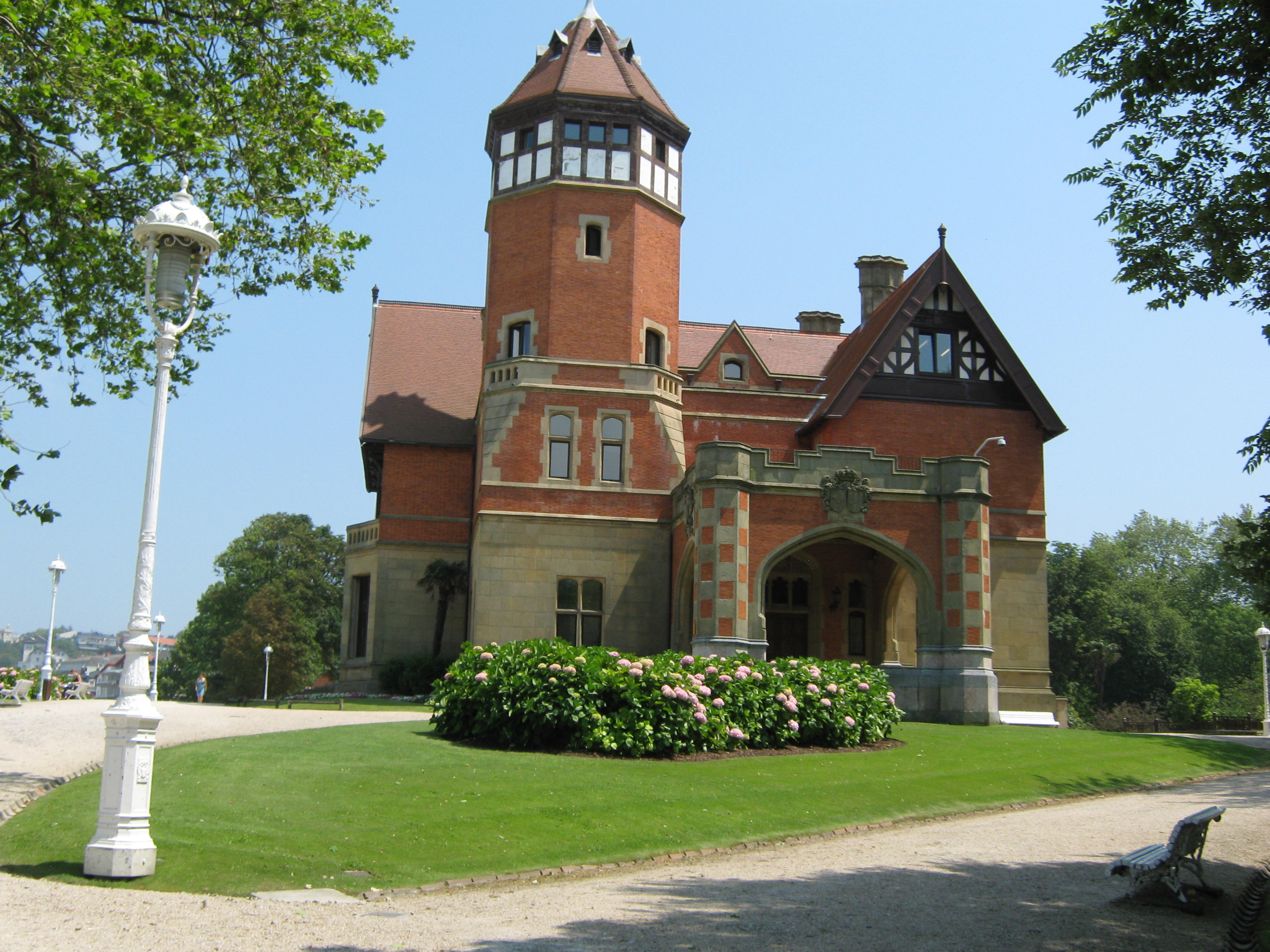 Palacio de Miramar right side (Donostia-San-Sebastián, Spain)